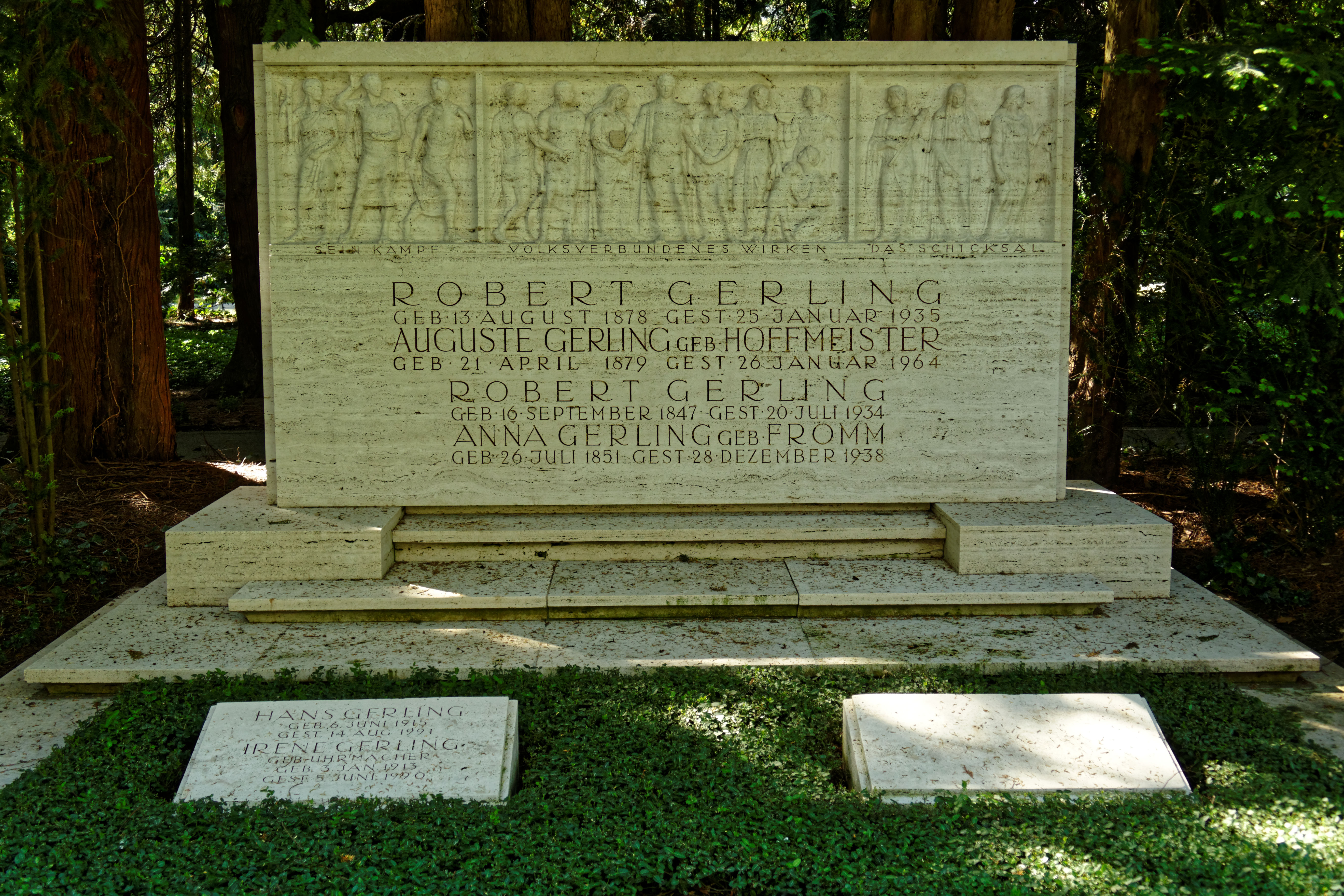 Grab von Robert und Hans Gerling auf dem Kölner Nordfriedhof (alter Teil)